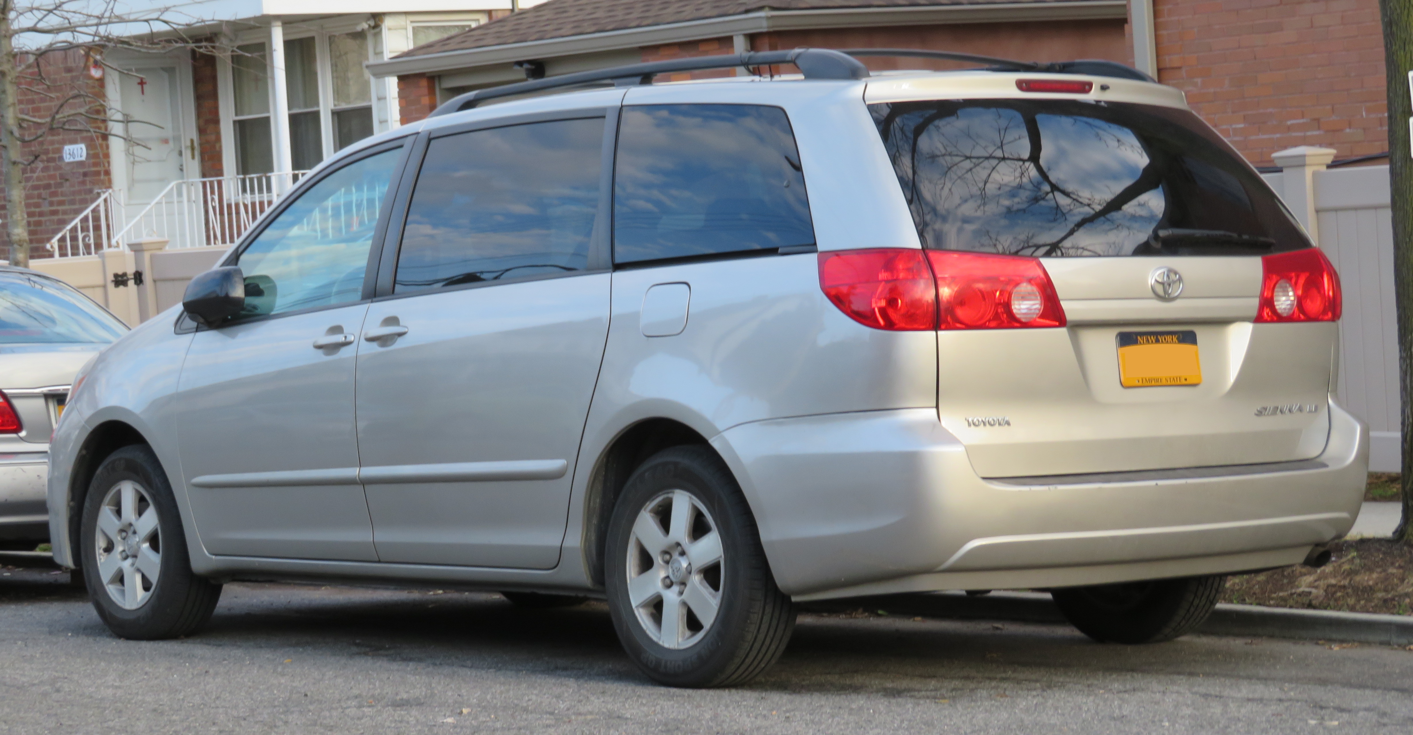 Photographed in Queens, New York